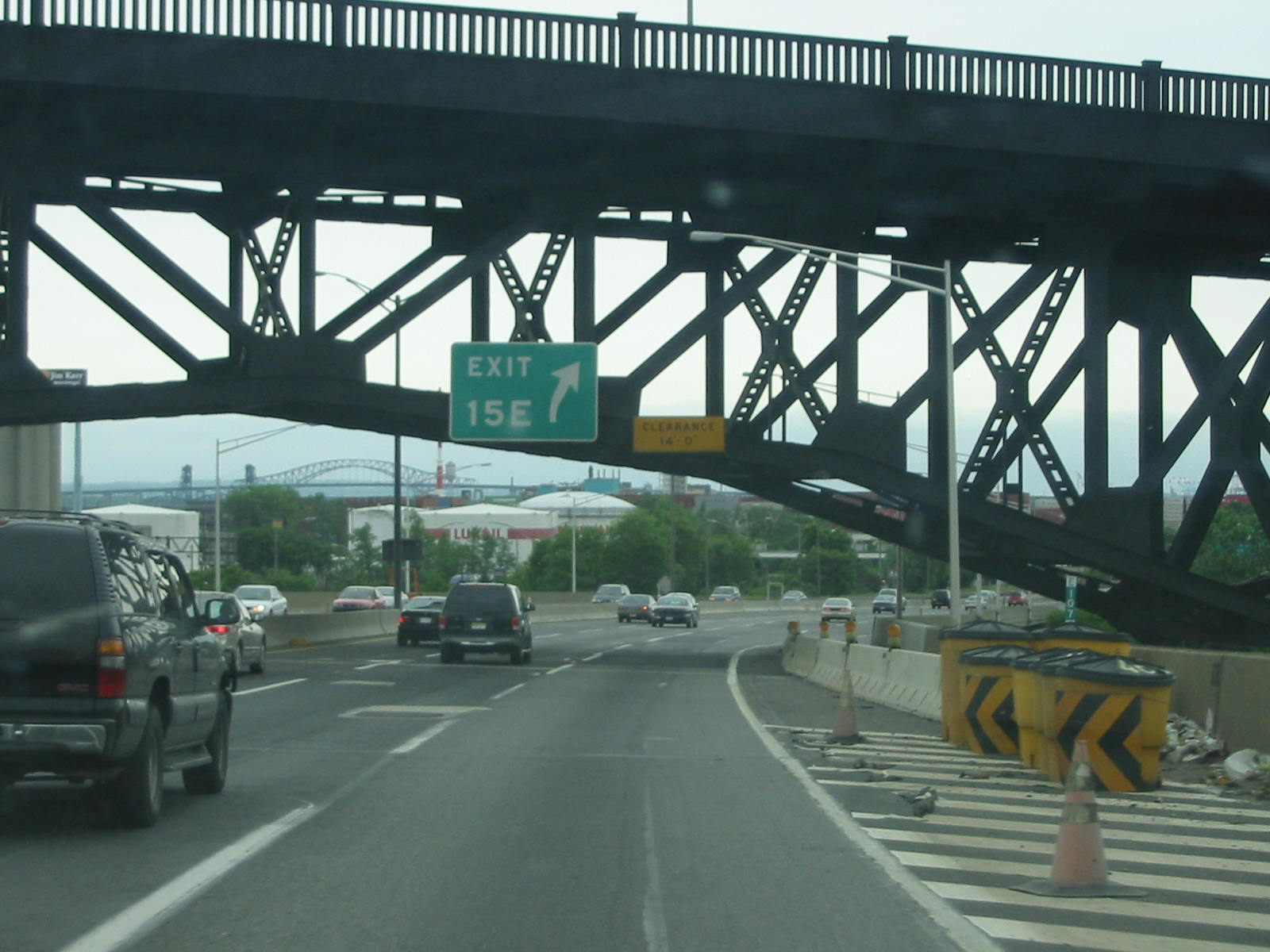 Southbound on the New Jersey Turnpike going under the Pulaski Skyway. In the background, the bridge on the Newark Bay Extension is visible. Photo taken May 31, 2004 by SPUI.